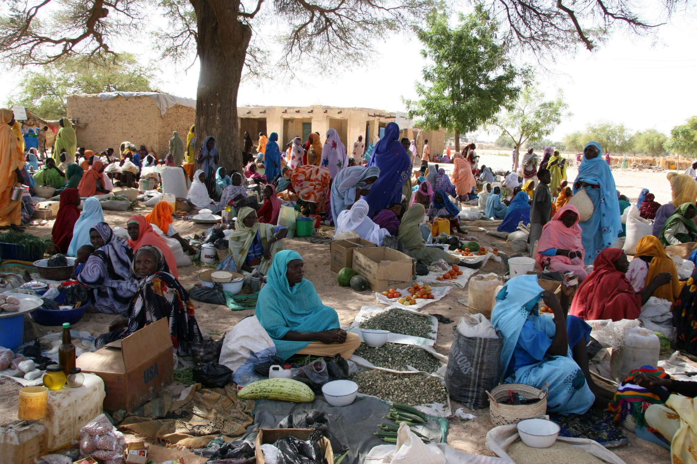 Darfur. Market sellers